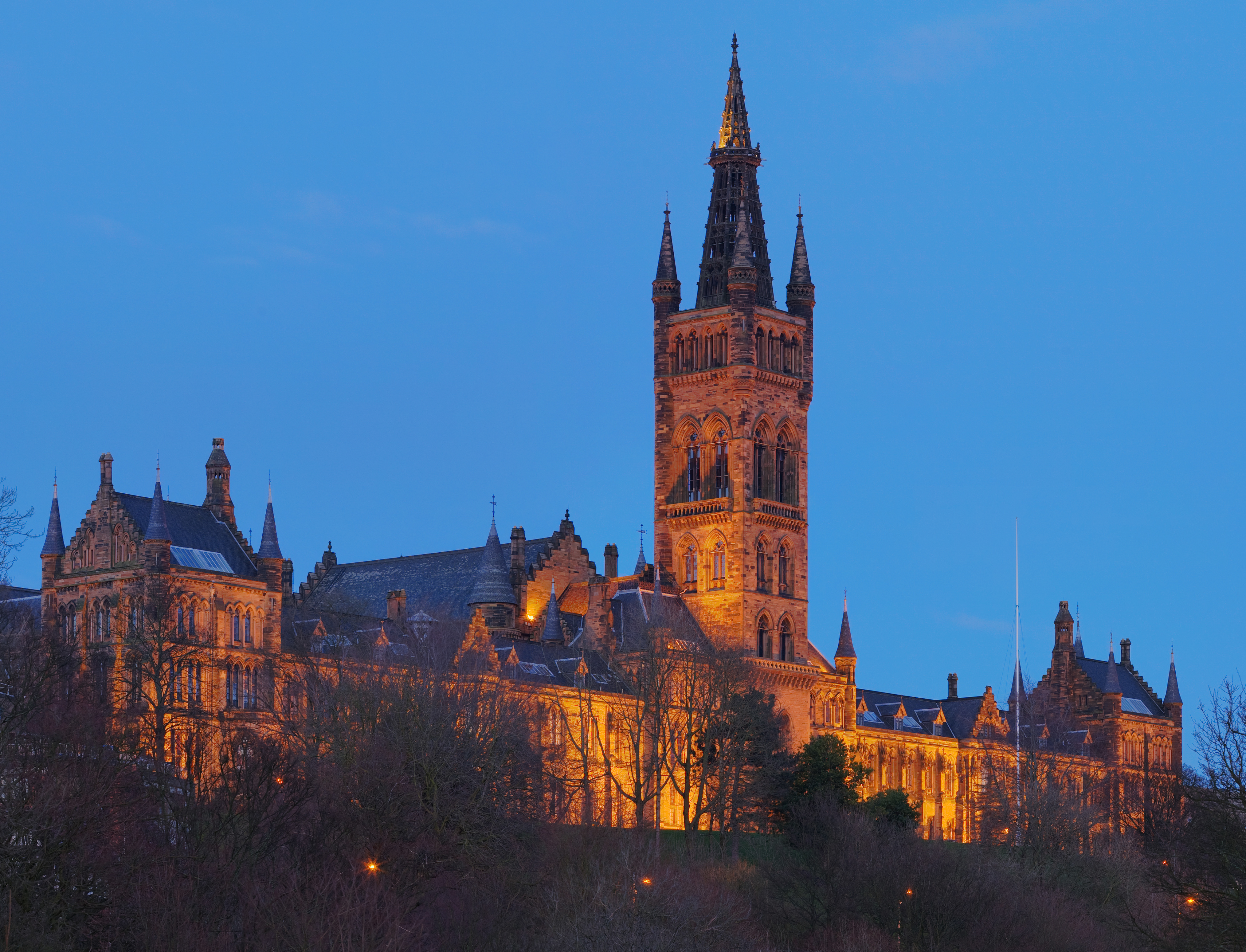 The Gilbert Scott Building at the University of Glasgow. Taken by myself with a Canon 5D and 100mm f/2.8 lens. It is a four segment HDR tone mapped and stitched image.